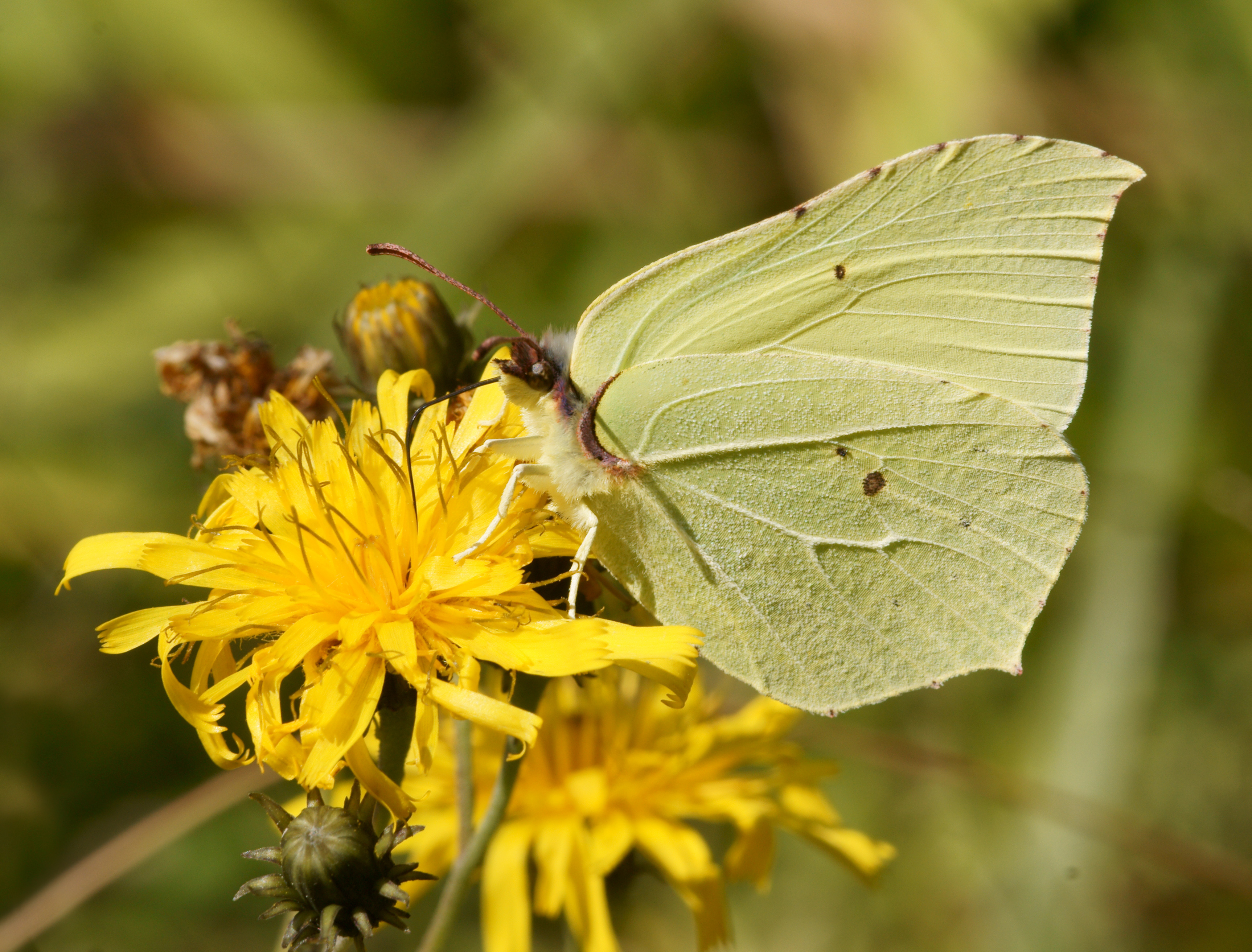 Common Brimstone (Gonepteryx rhamni).